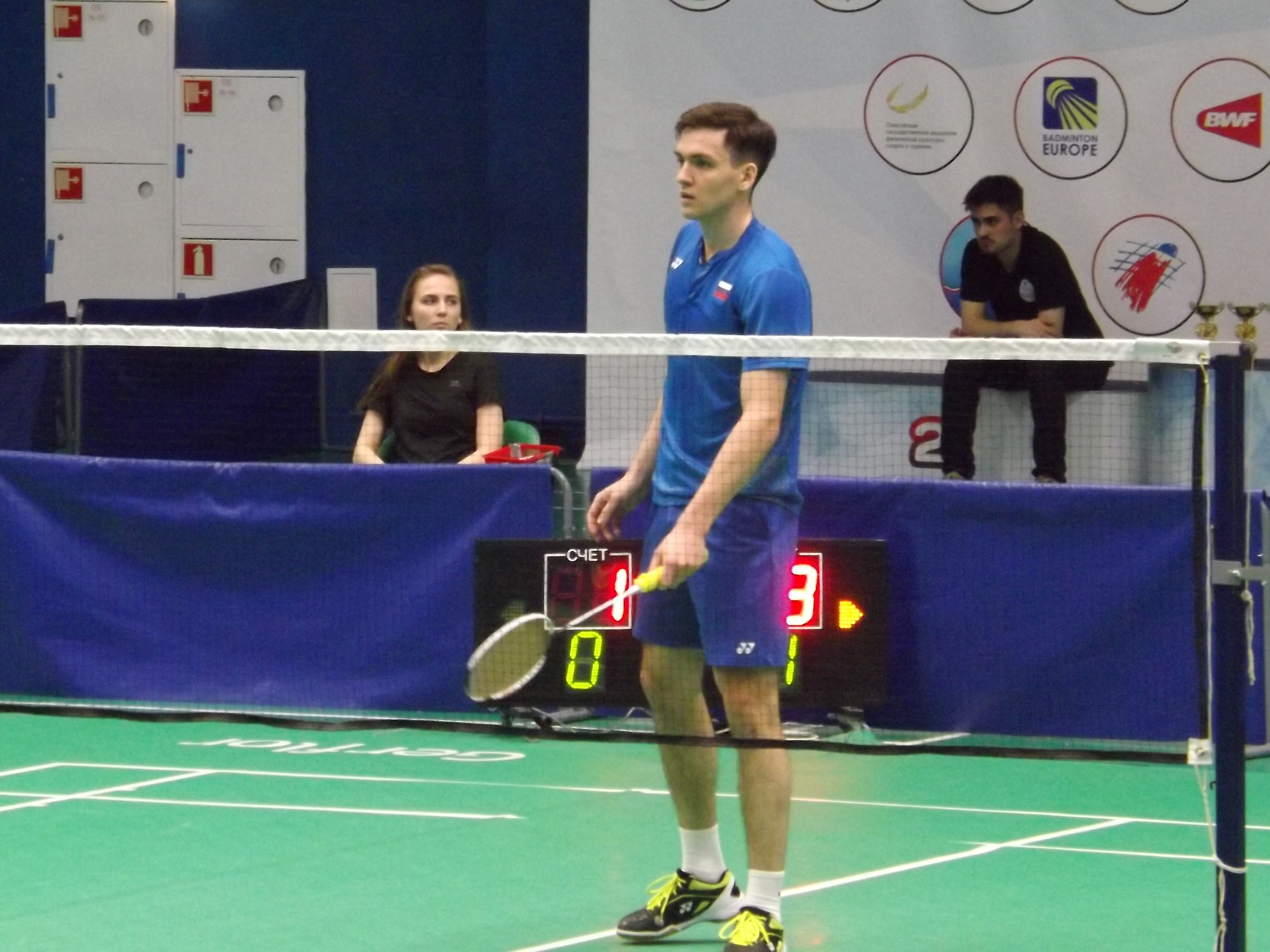 Badminton player Sergey Sirant in men's singles semifinal of 2019 Russian Cup (4 may 2019, Kazan)